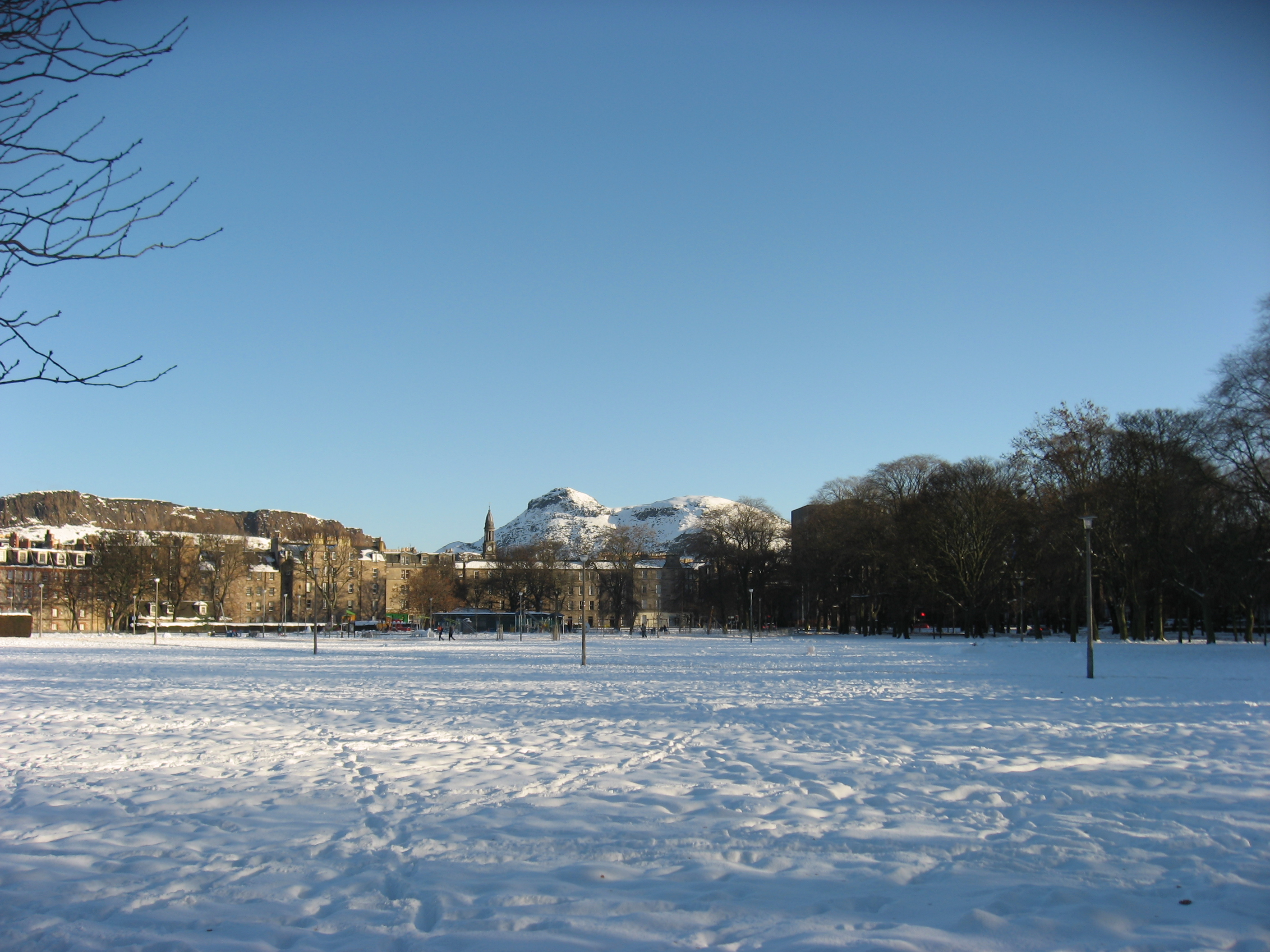 A view on the East Meadows in Edinburgh in December 2010. The rock formations in the background are Salisbury Crags (left) and Arthur's Seat (right).